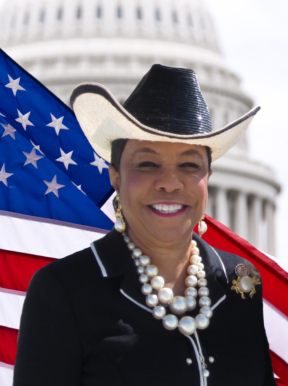 Official congressional portrait of U.S. Rep. Frederica Wilson (D-Florida)